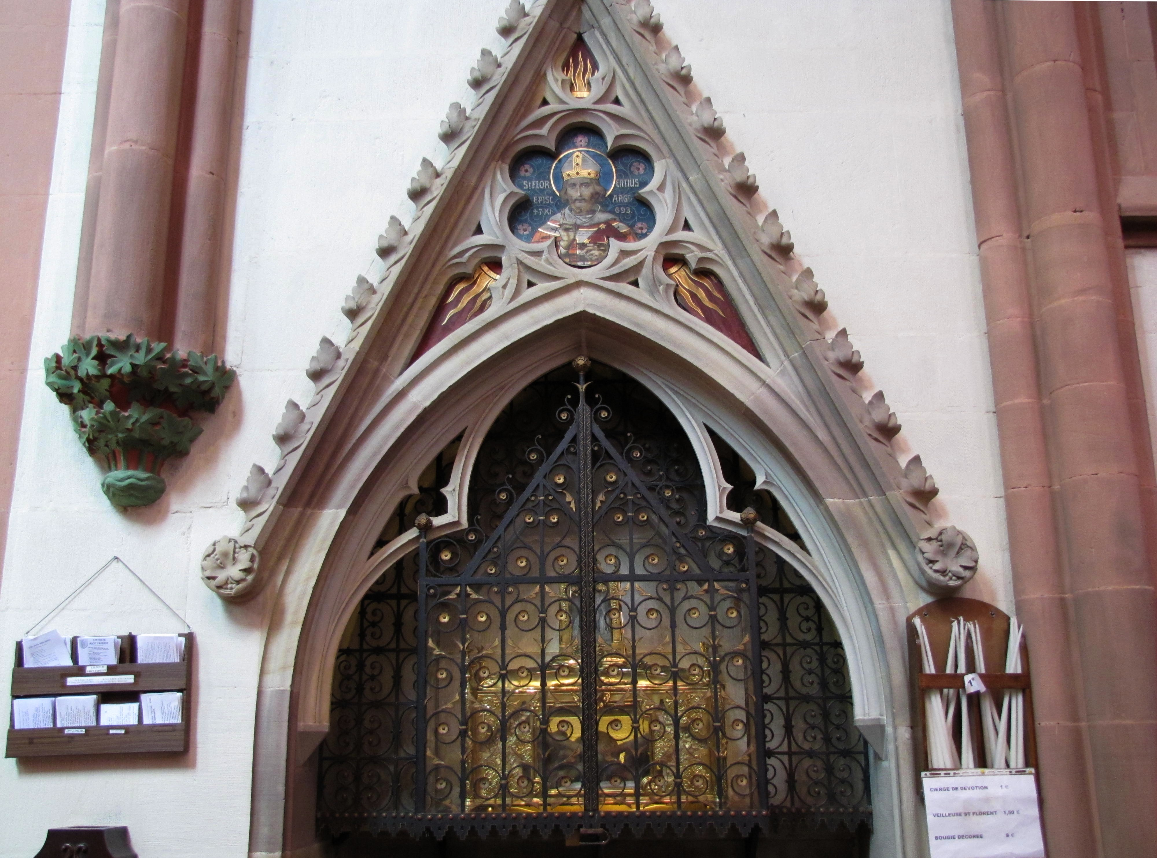 Alsace, Bas-Rhin, Niederhaslach, Collégiale Saint-Florent: (PA00084831, IA67011296, IA67011295). Châsse-reliquaire de St-Florent (XVIIIe): This object is classé Monument Historique in the base Palissy, database of the French furniture patrimony of the French ministry of culture, under the references PM67001150 and IM67016778.